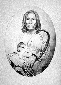 Sitting Bear (Satank, Set-angya), a Kiowa chief; half-length, seated.